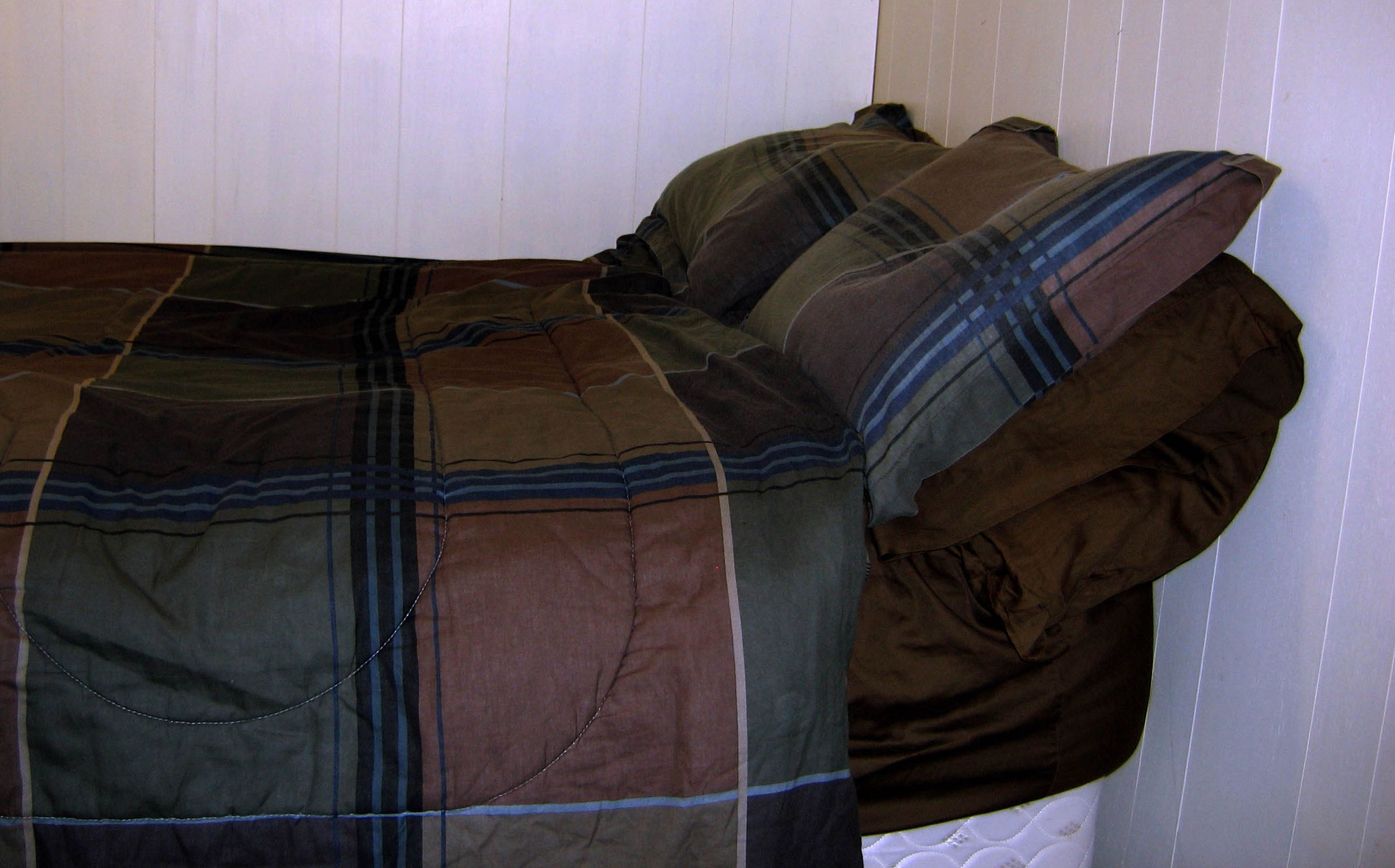 The front half of my bed, flipped so that the pillows would be on the right.